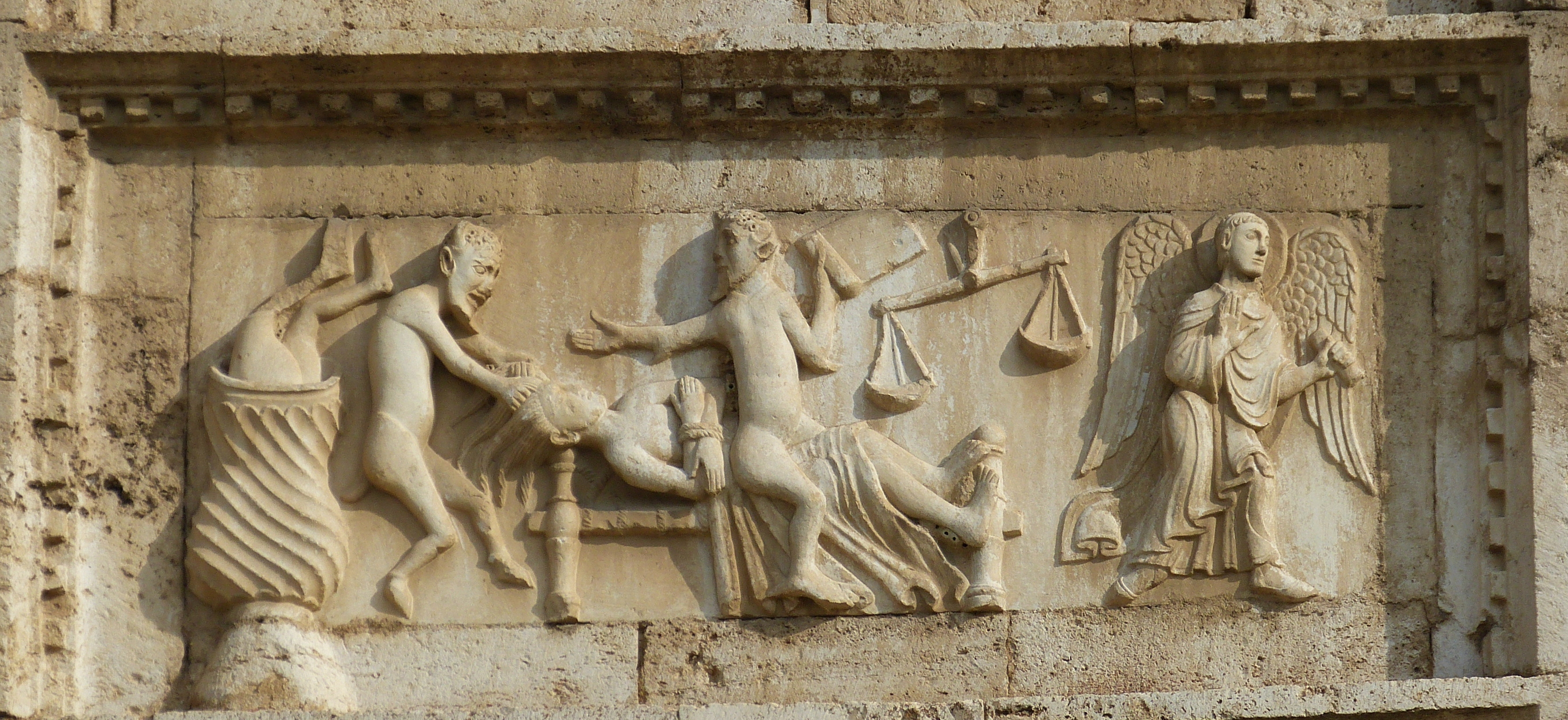 Spoleto ( Umbria ). San Pietro fuori le mura: Romanesque main portal ( 1200s ) - Reliefs at the left: The unrepentant sinner is tortured by demons while his soul is going to hell and archangel Michael walks away.